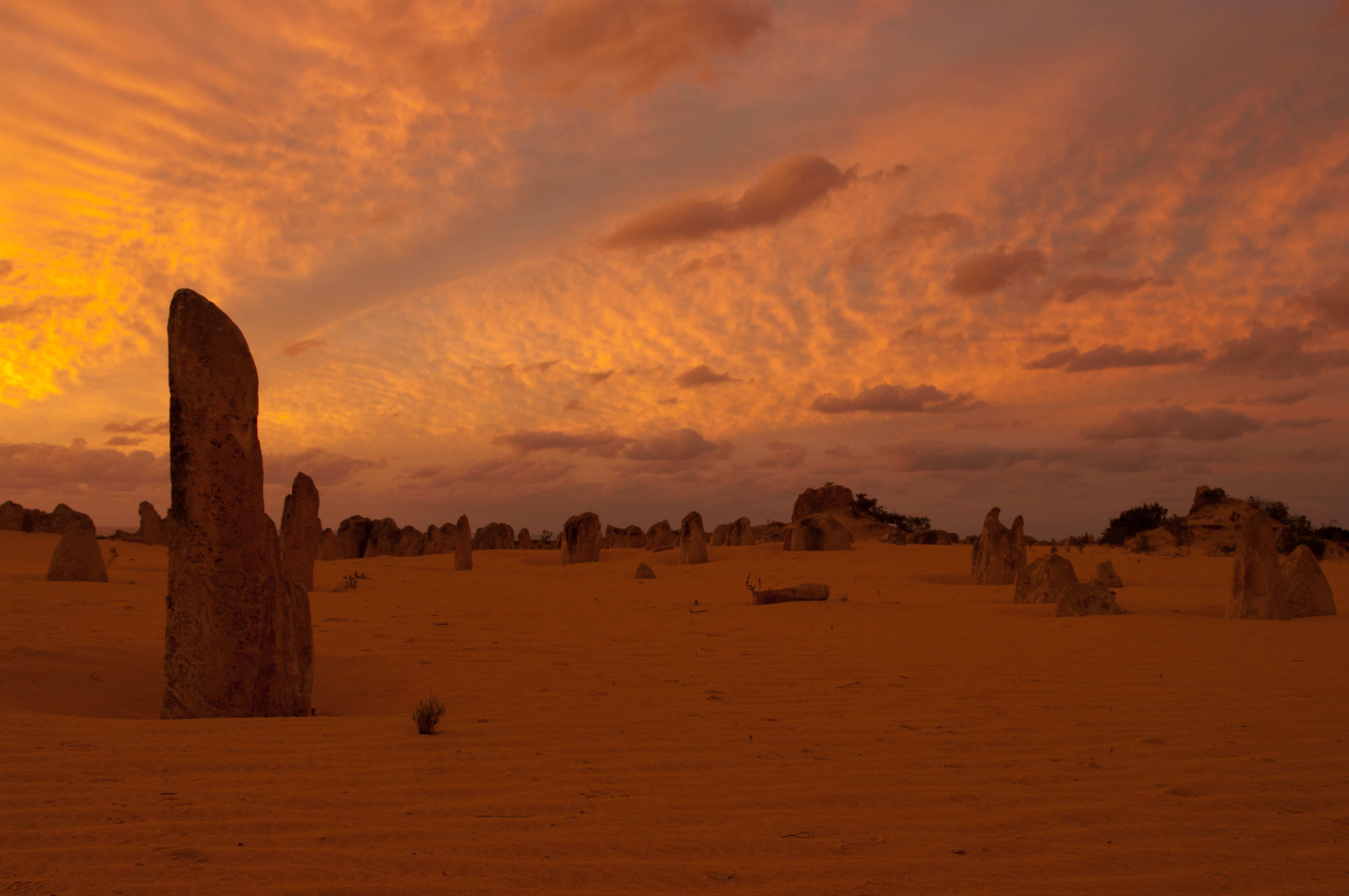 The Pinnacle Desert, Nambung National Park.